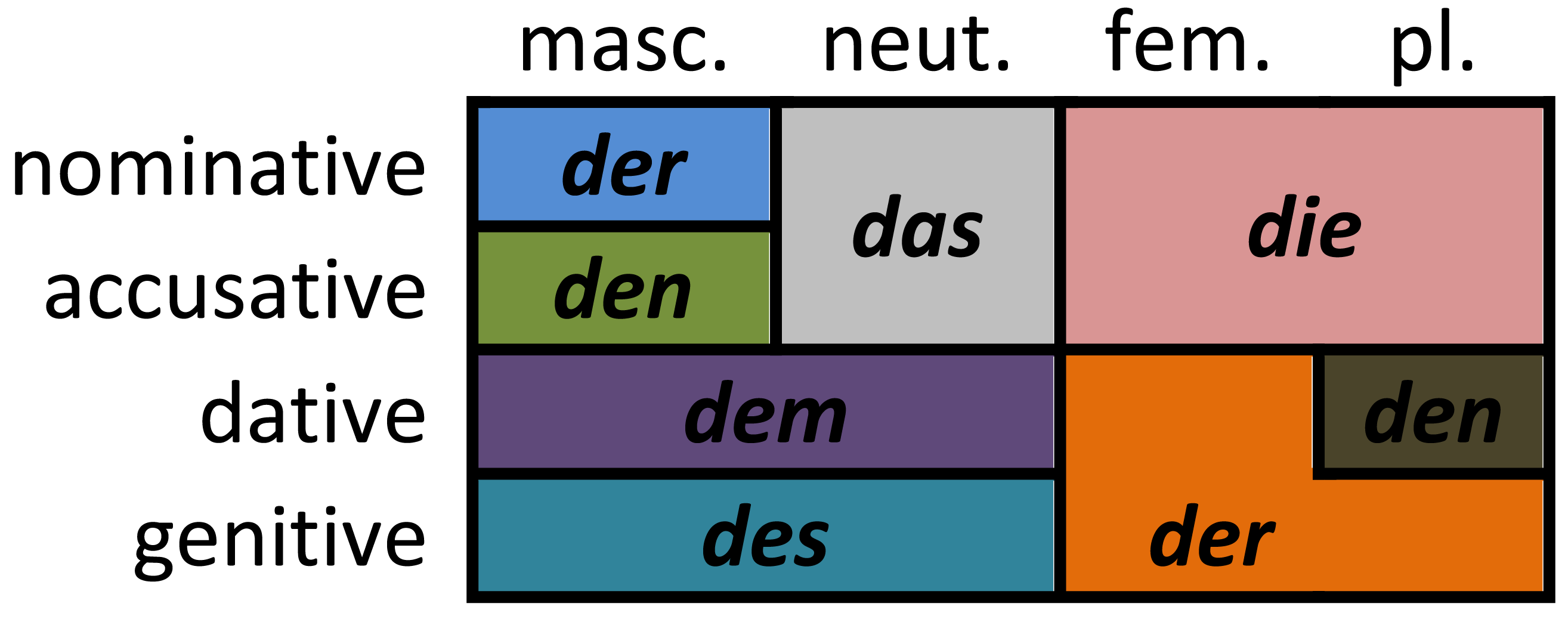 German definite article declension